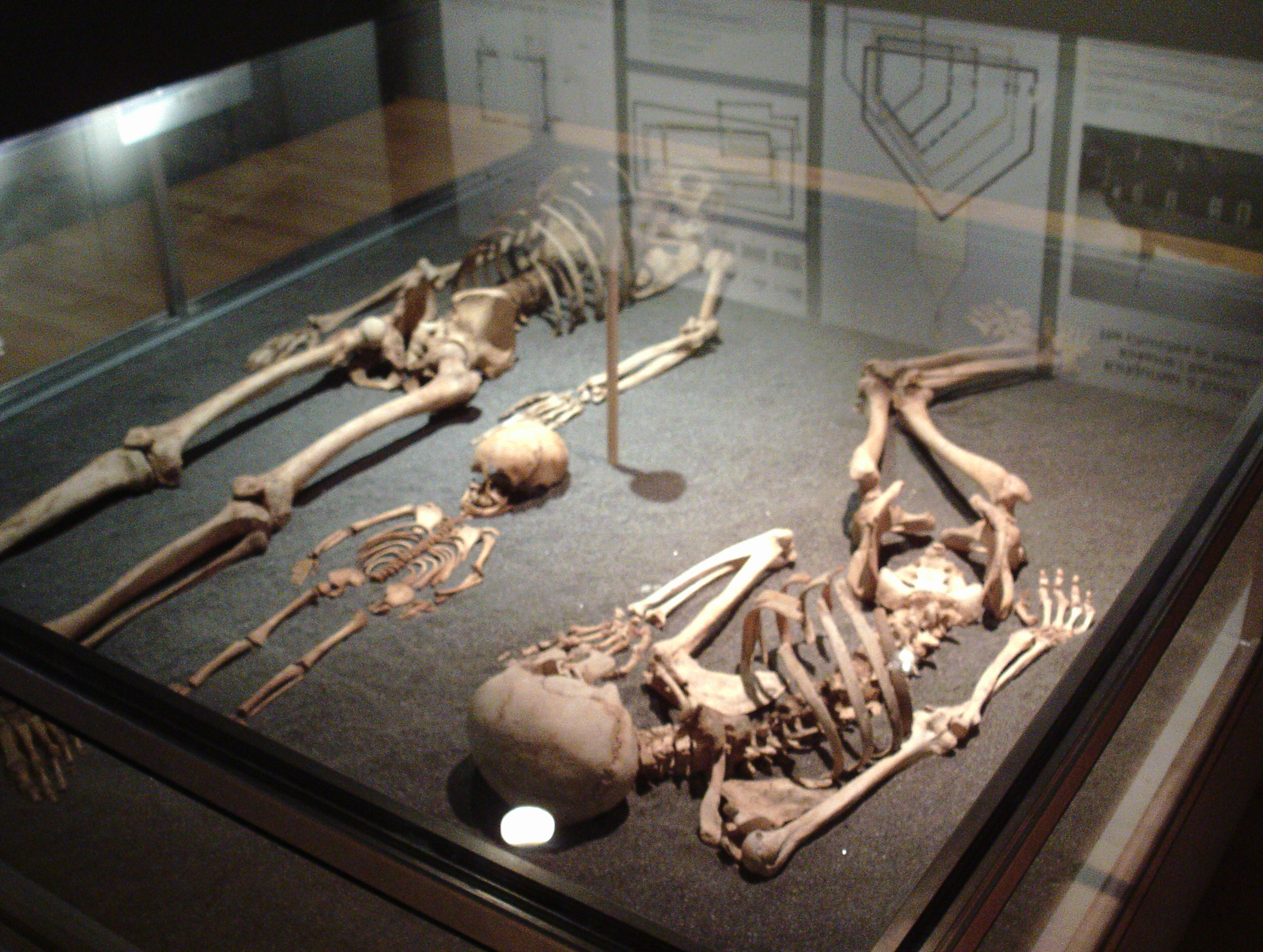 Man, woman and infant found during excavations, on display at the Faroese national museum in Tórshavn